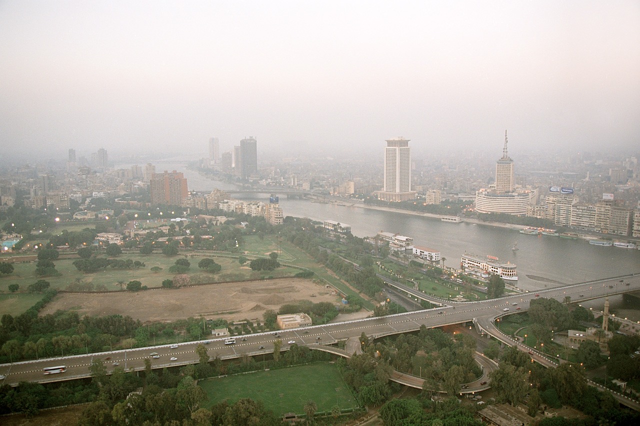 A late afternoon view from the Cairo Tower of Gezira Island, and the 6th October Bridge. View towards downtown Cairo, Egypt. October 2004. Released under cc-by-sa 2.5 license.